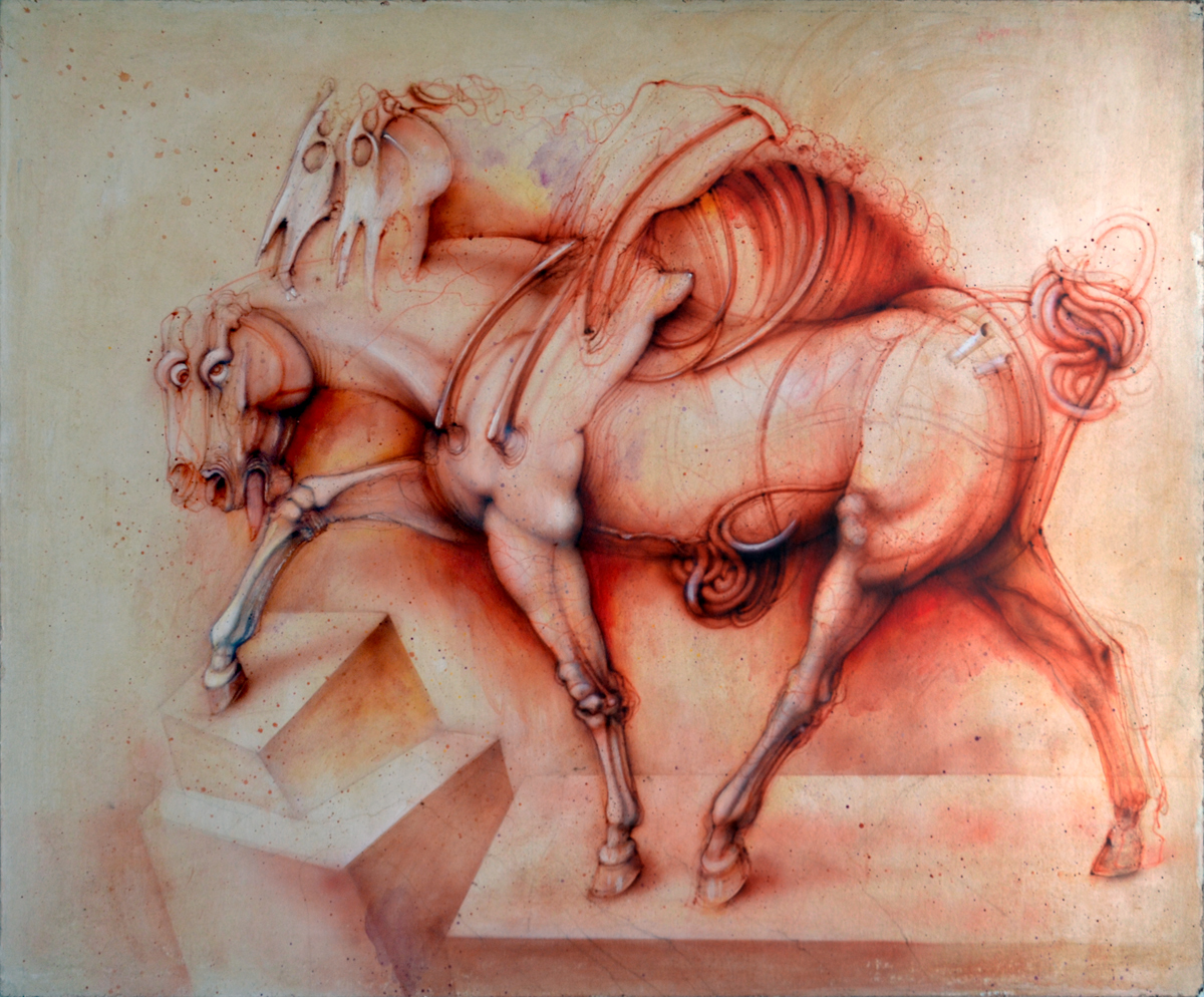 Peter Oriešek, No title I, undated, airbrush, 100x123 cm